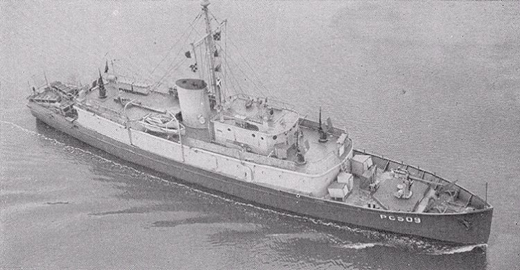 The United States Navy submarine chaser . She later was reclassified as a coastal patrol yacht (PYc) and renamed .